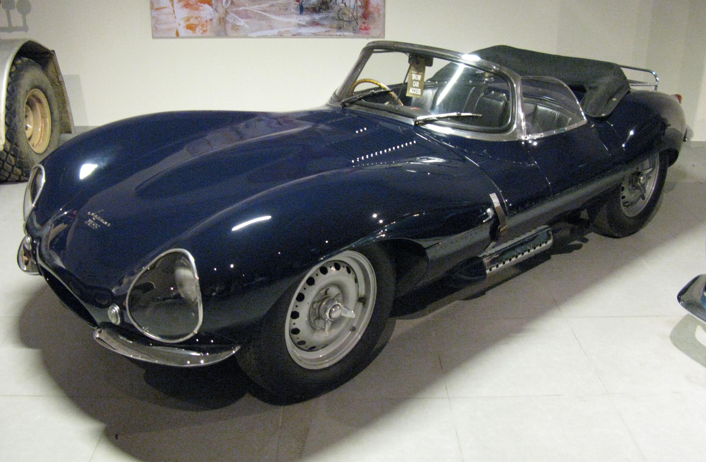 1957 Jaguar XK-SS.